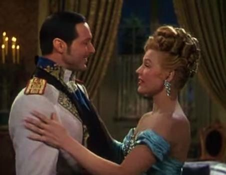 Anthony Dexter & Gale Robbins in The Brigand - trailer (cropped screenshot)